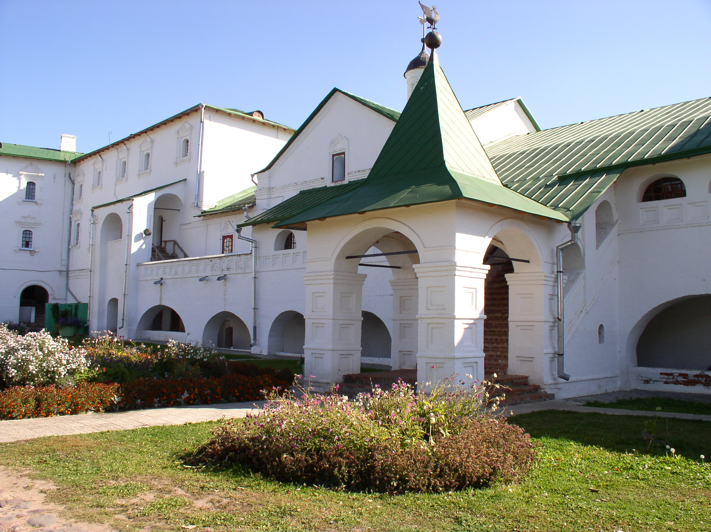 Archbishop's Palace. Suzdal, Russia.